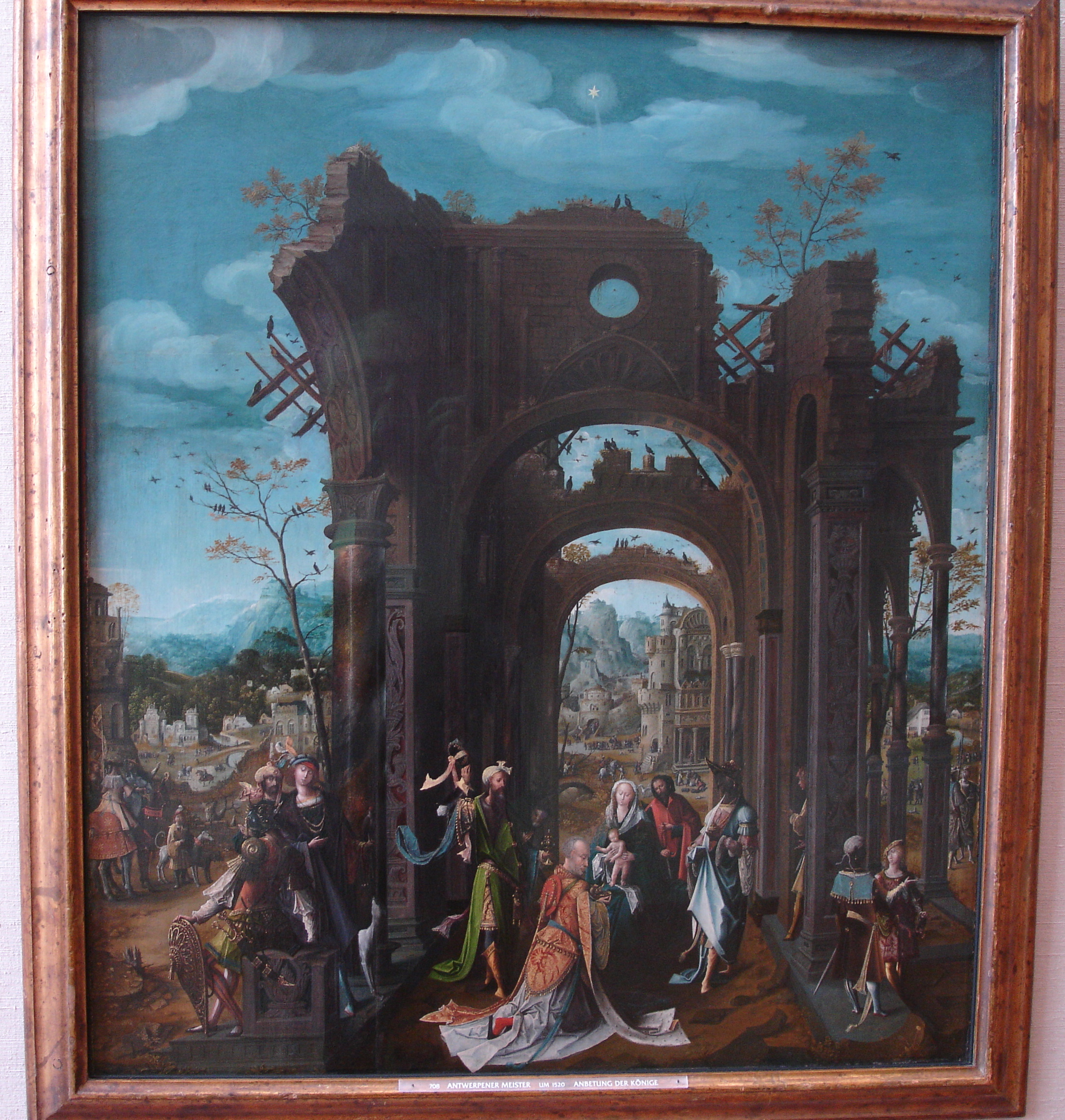 Adoration of the Magi